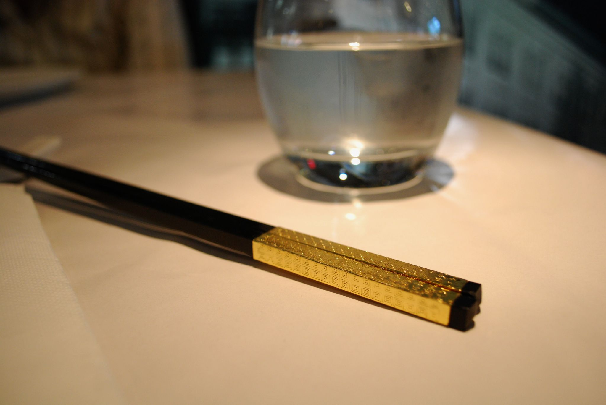 %u5916%u6EE9 The Bund Restaurant Level 1 / 206 Bourke St Melbourne VIC 3000 (03)96630005 - 206 Bourke Street - Dining: The Bund Restaurant will offer affordable luxury with internationally acclaimed chefs serving authentic Chinese cuisine with Shanghainese and Zhe Jiang influences. It will bring the amazing taste of Shanghai to Melbourne's doorstep and present it in one of the most opulent settings the city has seen. - Espresso - Epicure, The Age by Larissa Dubecki October 6, 2009 Birth of a dynasty THE $110 million redevelopment of the former Village City Centre complex into an Asian dining hub has signed Shanghai's Dynasty for a 600-seat restaurant. The press release touts the signing of Dynasty, a Cantonese and dim sum specialist based at Shanghai's Renaissance Yangtze Hotel, as a coup for the LAS Group's commercial redevelopment of the Bourke Street site, which backs on to Chinatown. Dynasty joins the 120-seat Bund, which will also boast two five-tonne shark tanks, and the expansion of former lord mayor John So's Dragon Boat, which is taking over two floors and will have a large open-air balcony. All going to plan, most of the complex will open by mid-month and Dynasty just before Christmas.